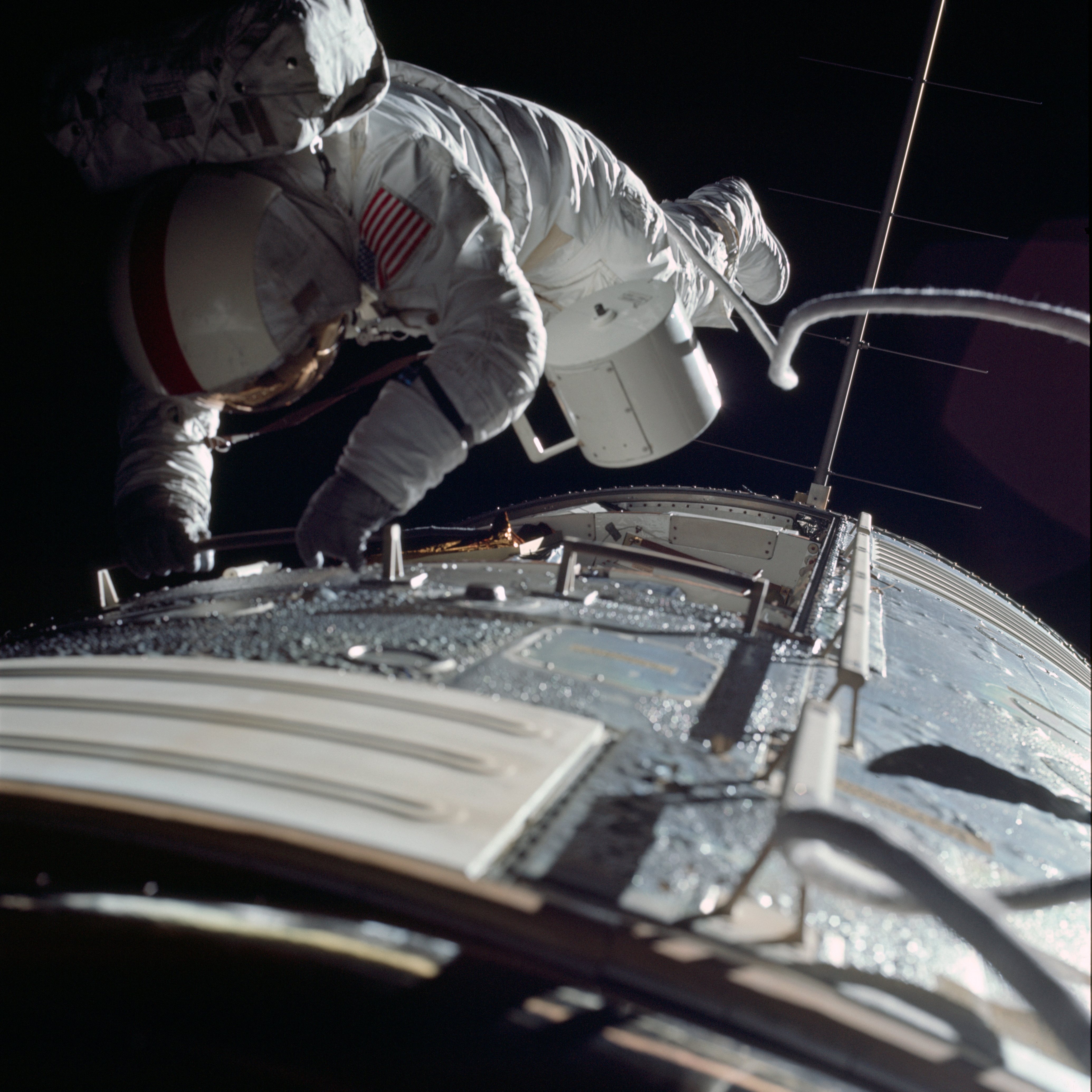 Astronaut Ronald E. Evans is photographed performing extravehicular activity during the Apollo 17 spacecraft's trans-earth coast. During his EVA, Evans, command module pilot, retrieved film cassettes from the lunar sounder, mapping camera and panoramic camera. The cylindrical object at Evans' left side is the mapping camera cassette. The total time for the trans-earth EVA was one hour, seven minutes, 18 seconds, starting at ground elapsed time of 257:25 (2:28 p.m.) and ending at G.E.T. of 258:42 (3:35 p.m.) on Sunday, December 17, 1972.